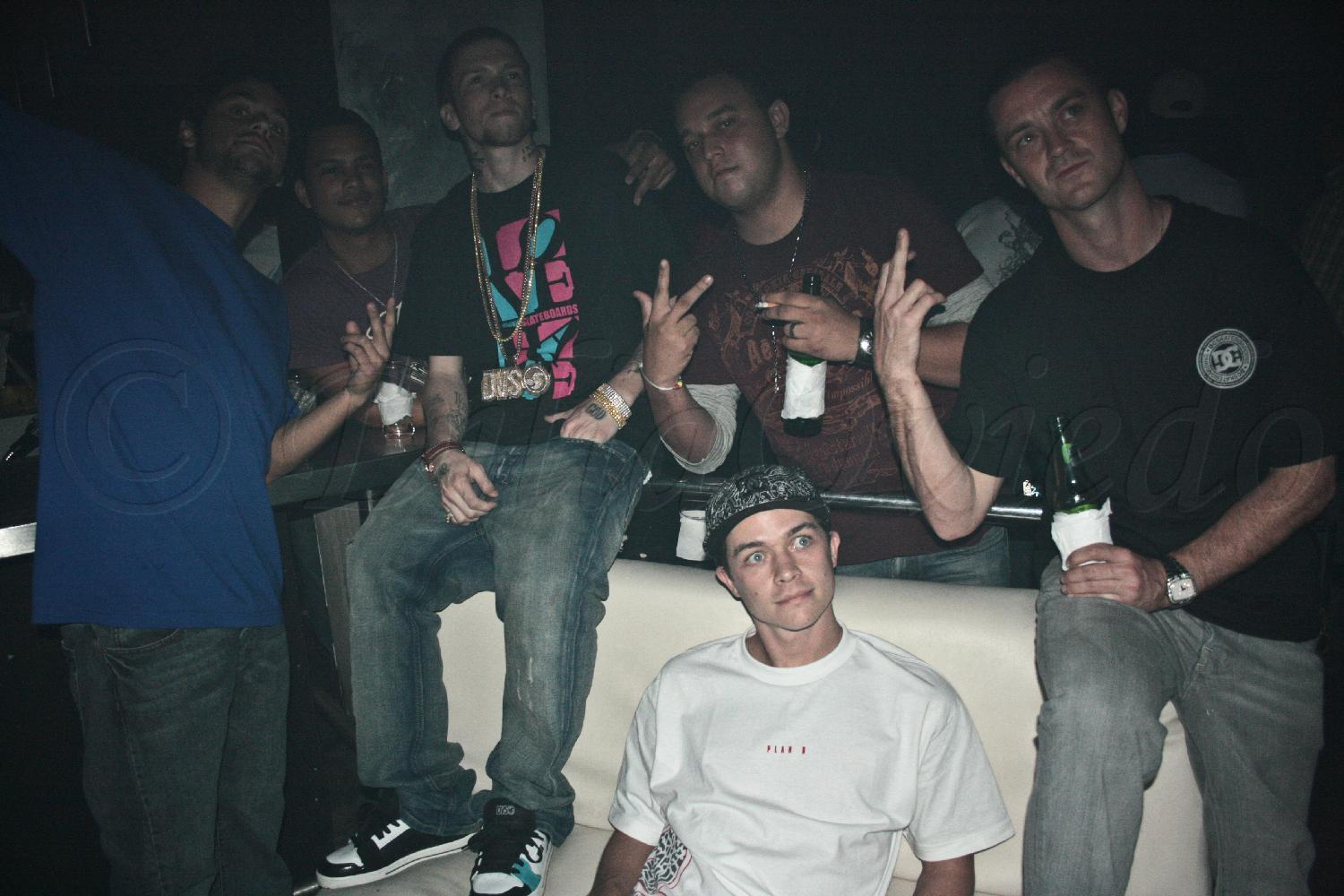 Paul Rodriguez,Jereme Rogers, Ryan Gallant and Colin Mckay